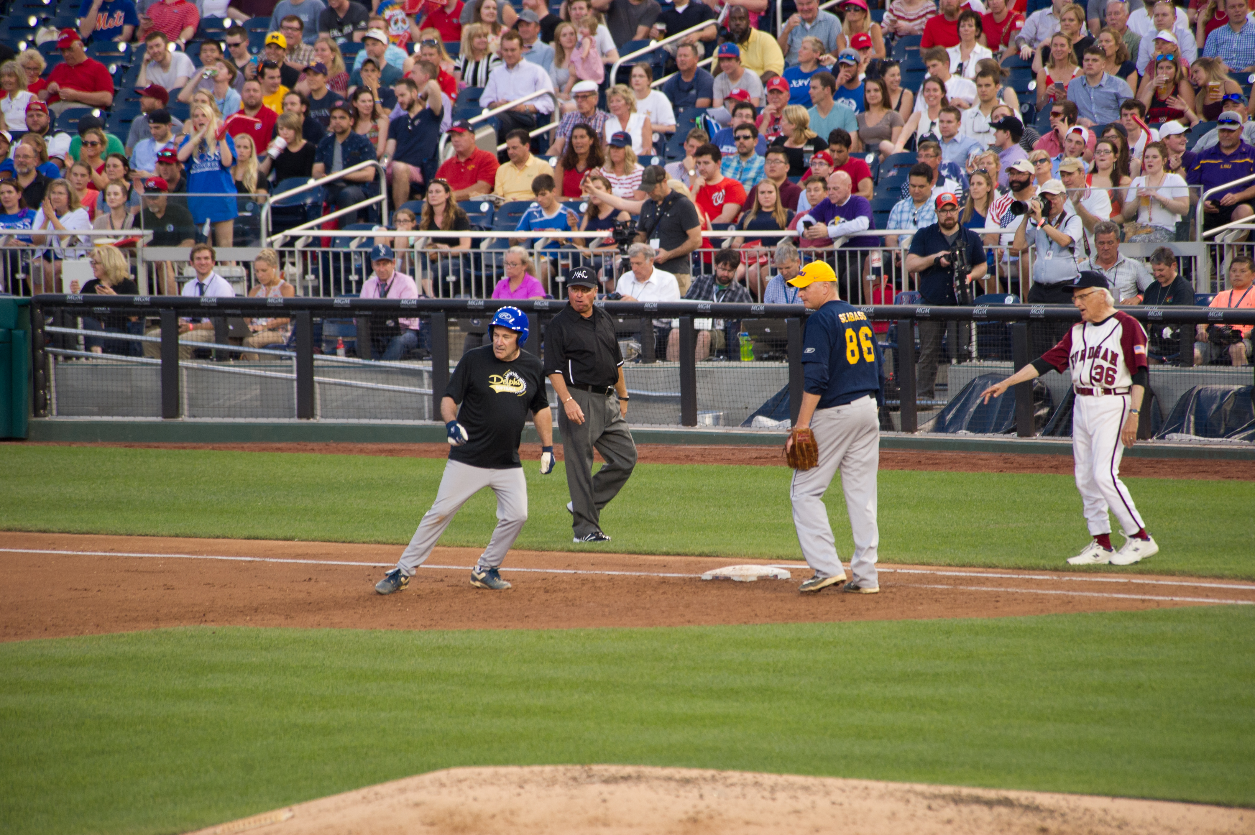 Image taken at Nationals Park during the 2017 Congressional Baseball Game.